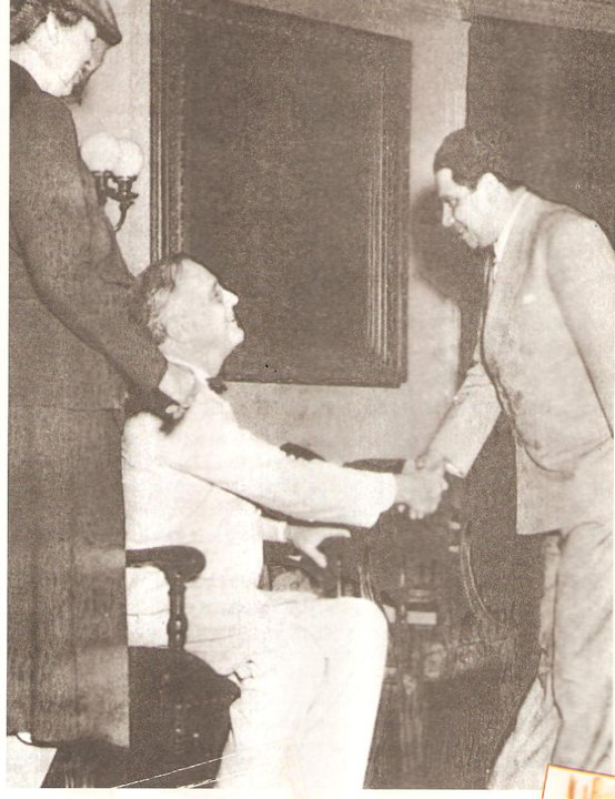 Morínigo and Roosevelt. June 9, 1943